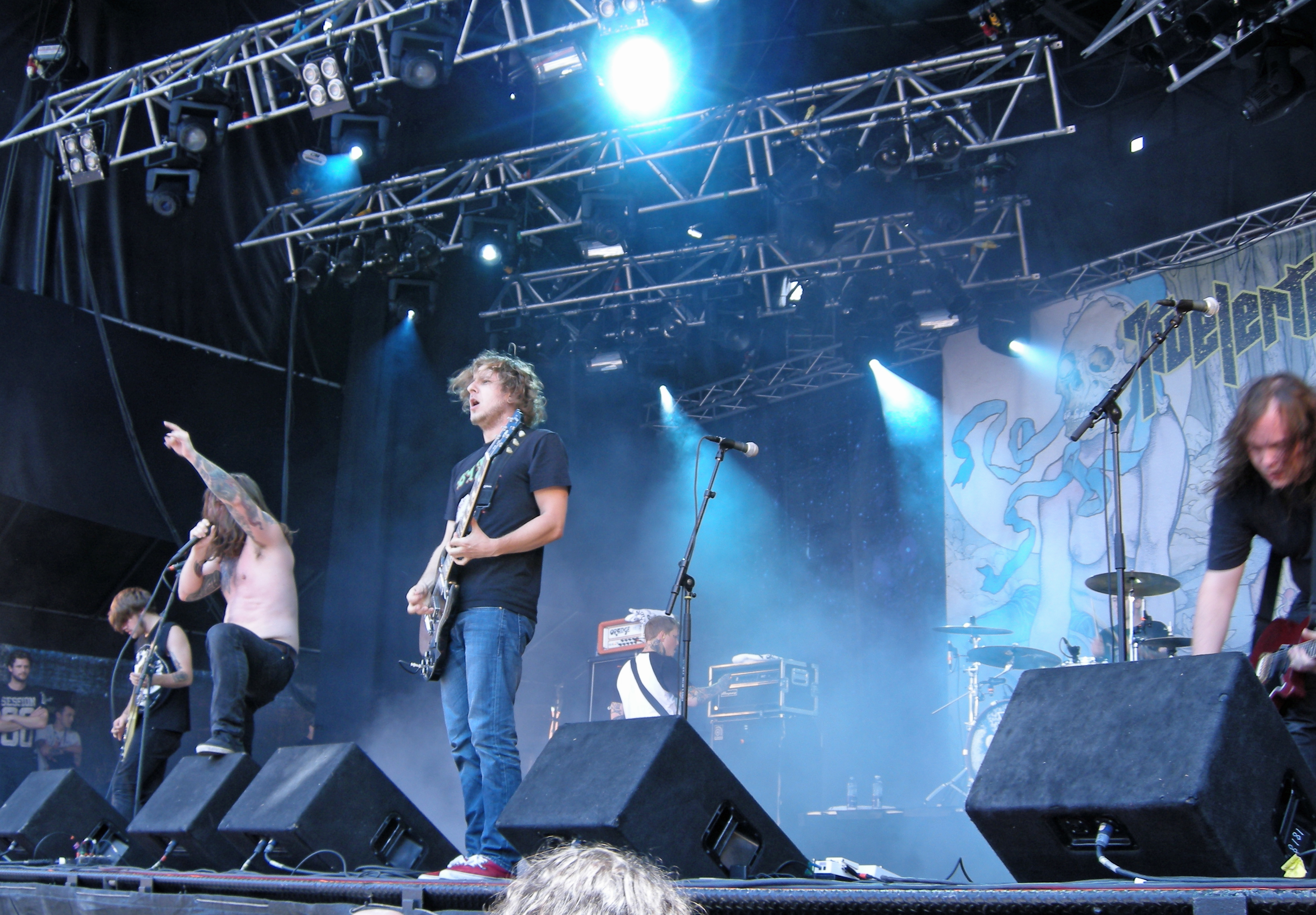 Norwegian band Kvelertak at Sonisphere Festival, Stockholm, Sweden 2011